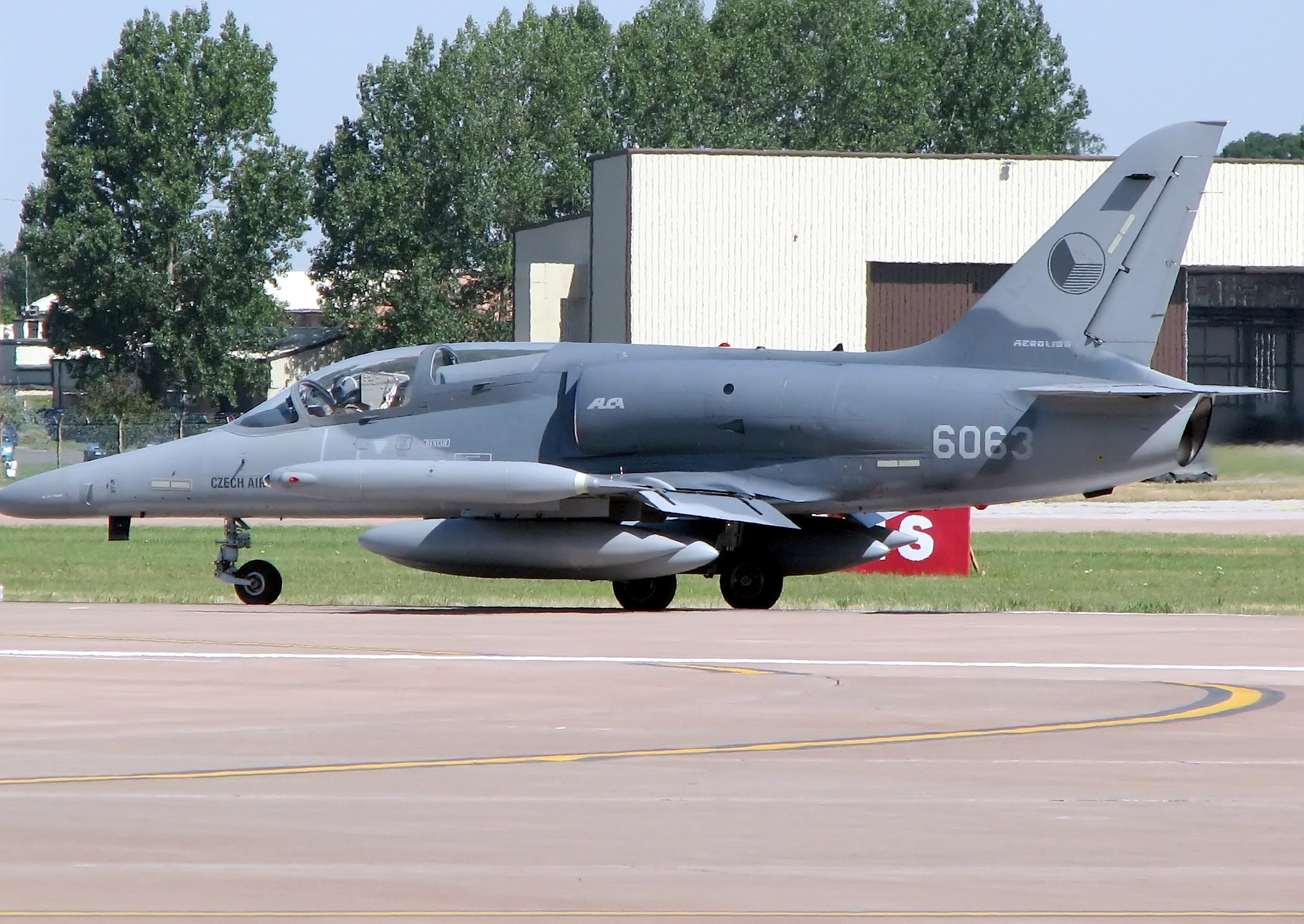 Aero Vodochody L159A ALCA (Advanced Light Combat Aircraft) of the Czech Air Force, registration 6063, at the Royal International Air Tattoo, RAF Fairford, Gloucestershire, England. Photographed by Adrian Pingstone on July 17th 2006 and released to the public domain.